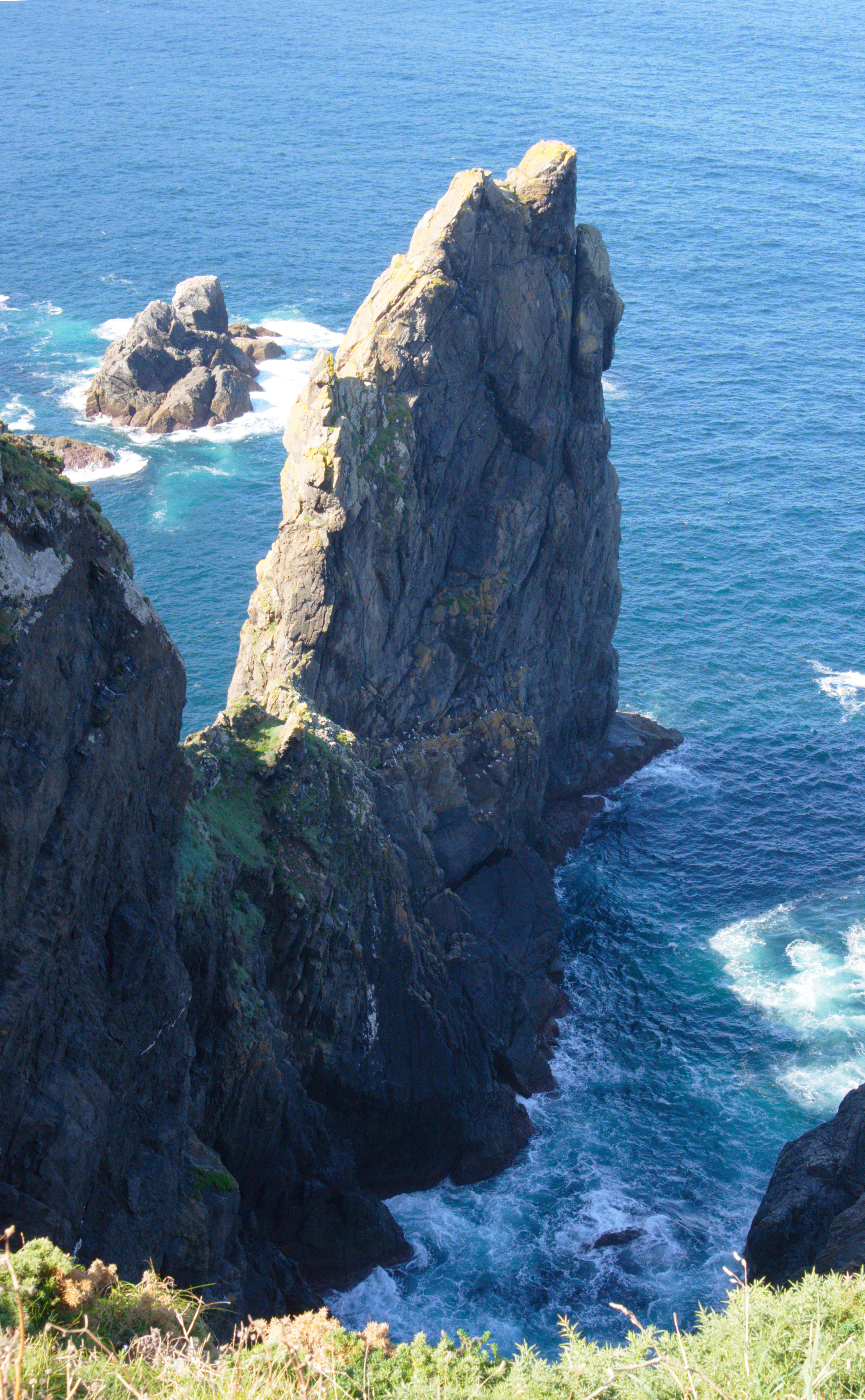 Rock on Cape Ortegal, populated by Uria